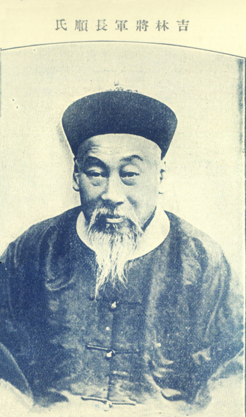 Changshun